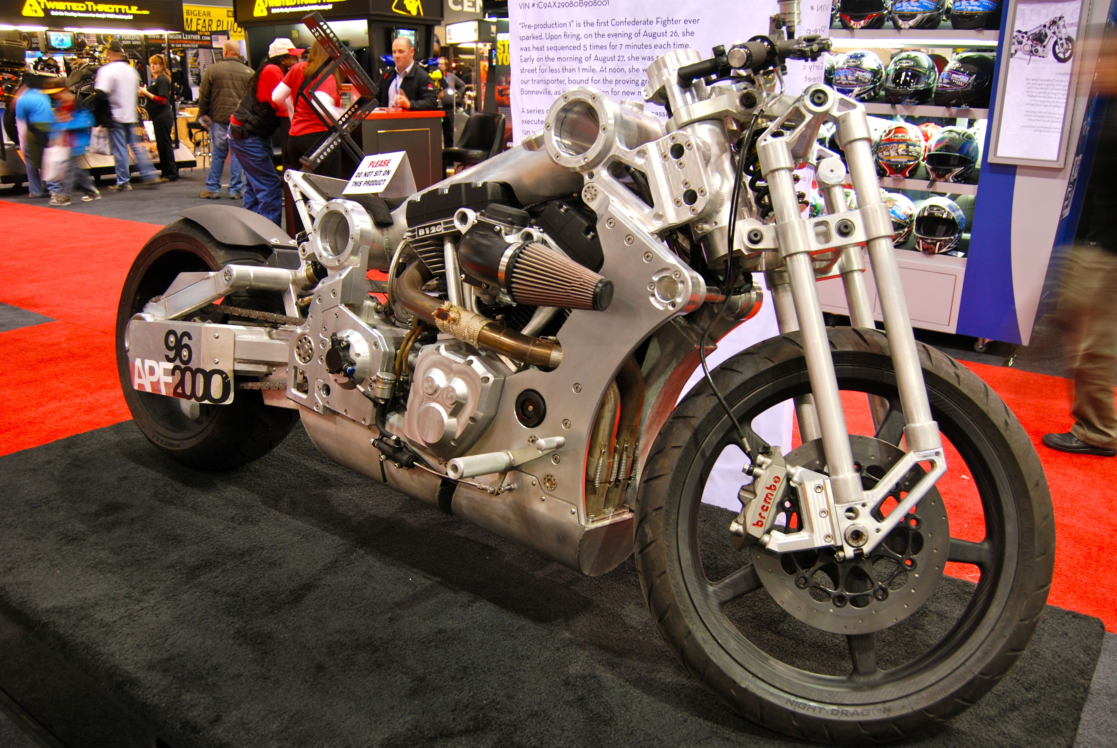 Pre-production 1 is the first Confederate Fighter. VIN# 1C9AX29080B908001. Claimed average speed of 155.8 mph in the flying mile at Bonneville Speedway. On display at the 2009 Seattle International Motorcycle Show.